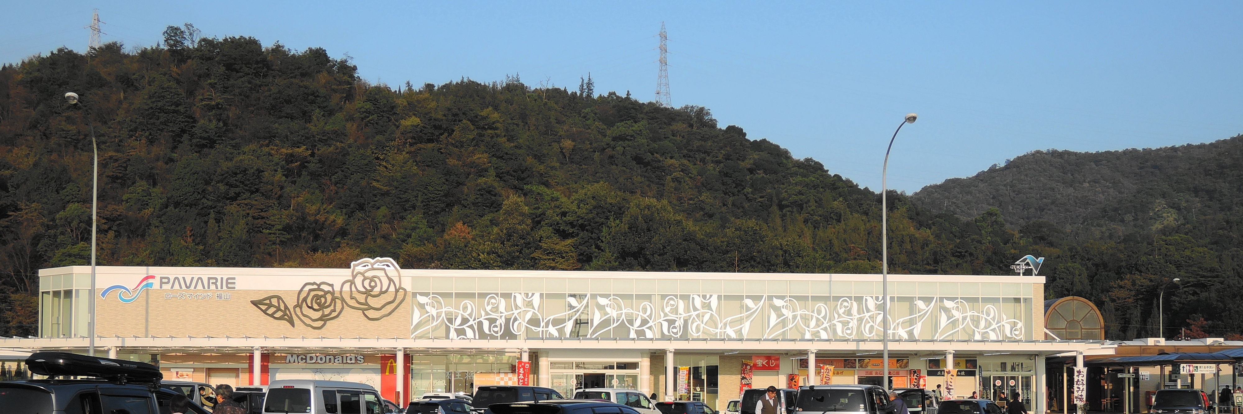 PAVARIE rose mind Fukuyama (Fukuyama Service Area) in Fukuyama City, Hiroshima Prefecture, Japan